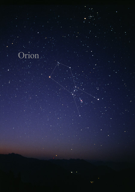 Photography of the constellation Orion.